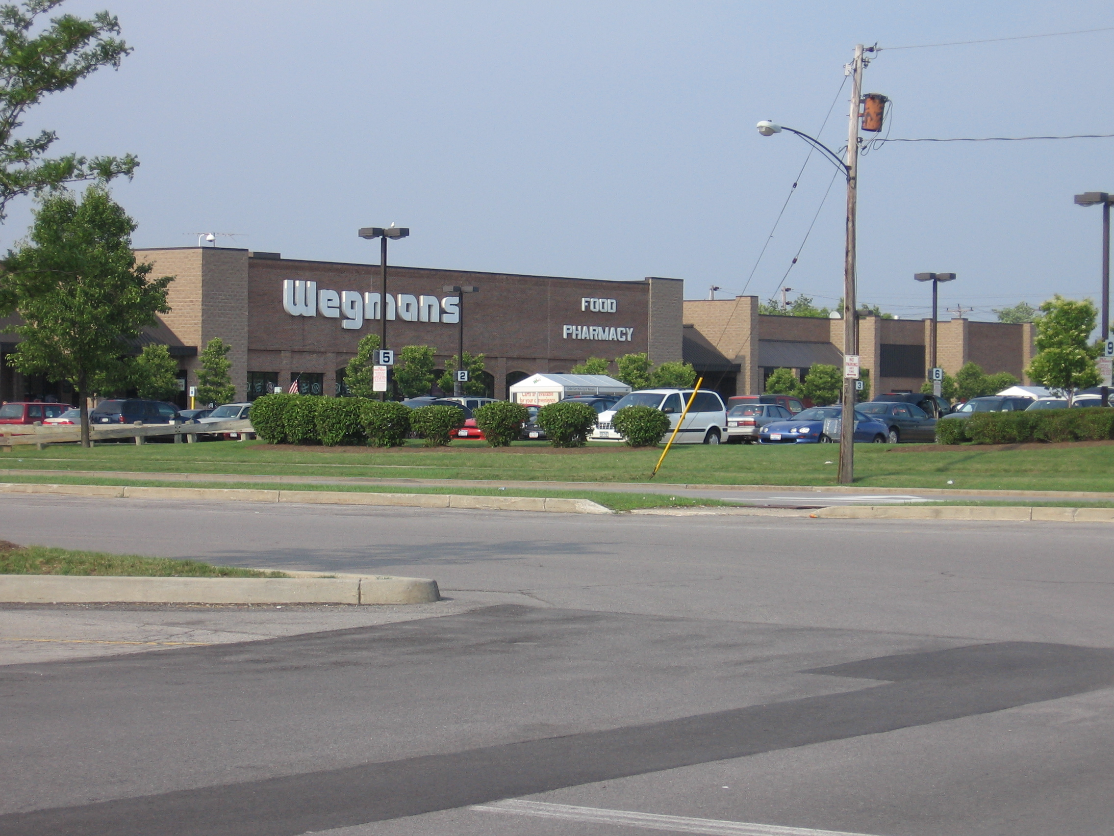 Description: Photograph of a Wegmans store exterior on Alberta Dr. in Amherst, NY across from the Boulevard Mall. Source: Photograph taken by Jerome C. Skeene on 1 July 2006. Copyright: © Jerome C. Skeene.